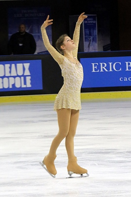 Yuliya Lipnitsкaya at the Trophee Eric Bompard 2014